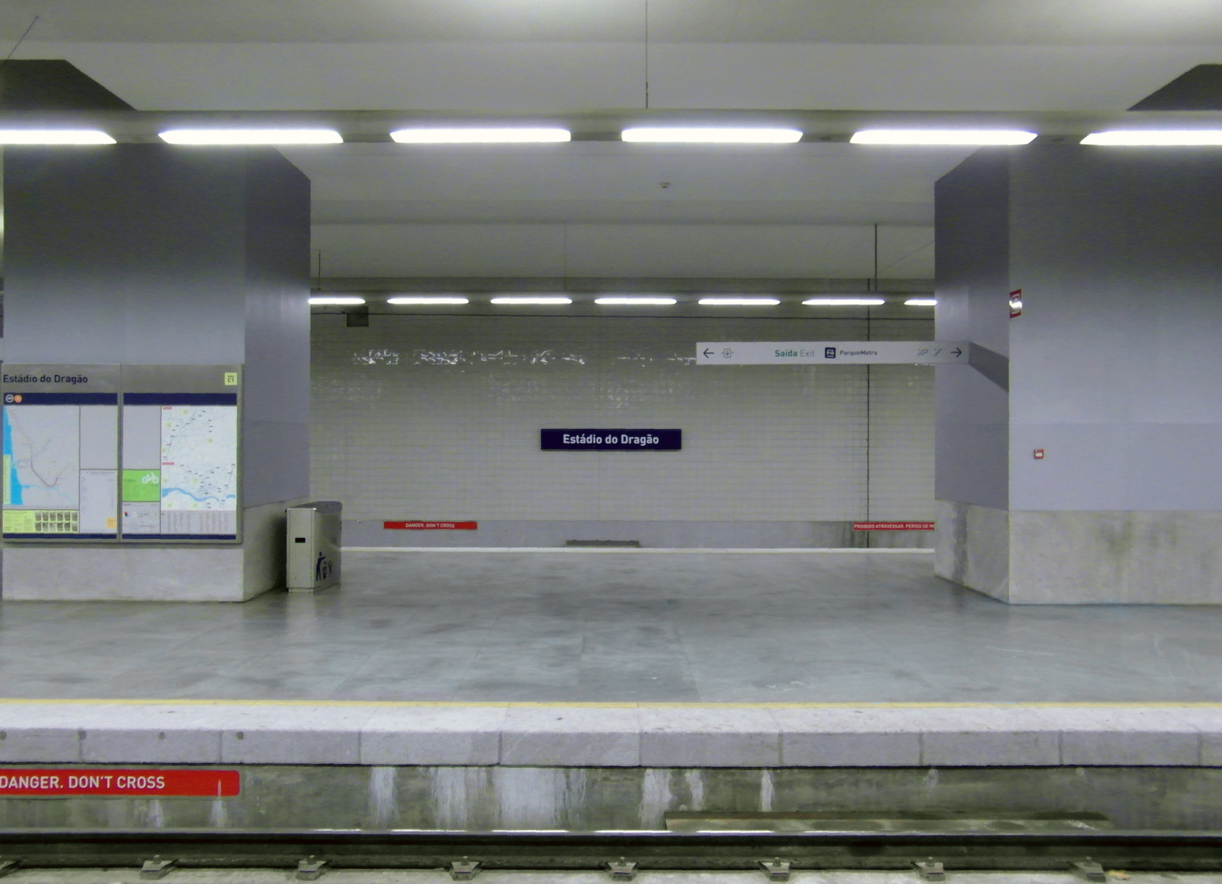 Stadtbahn Porto - Light rail Oporto